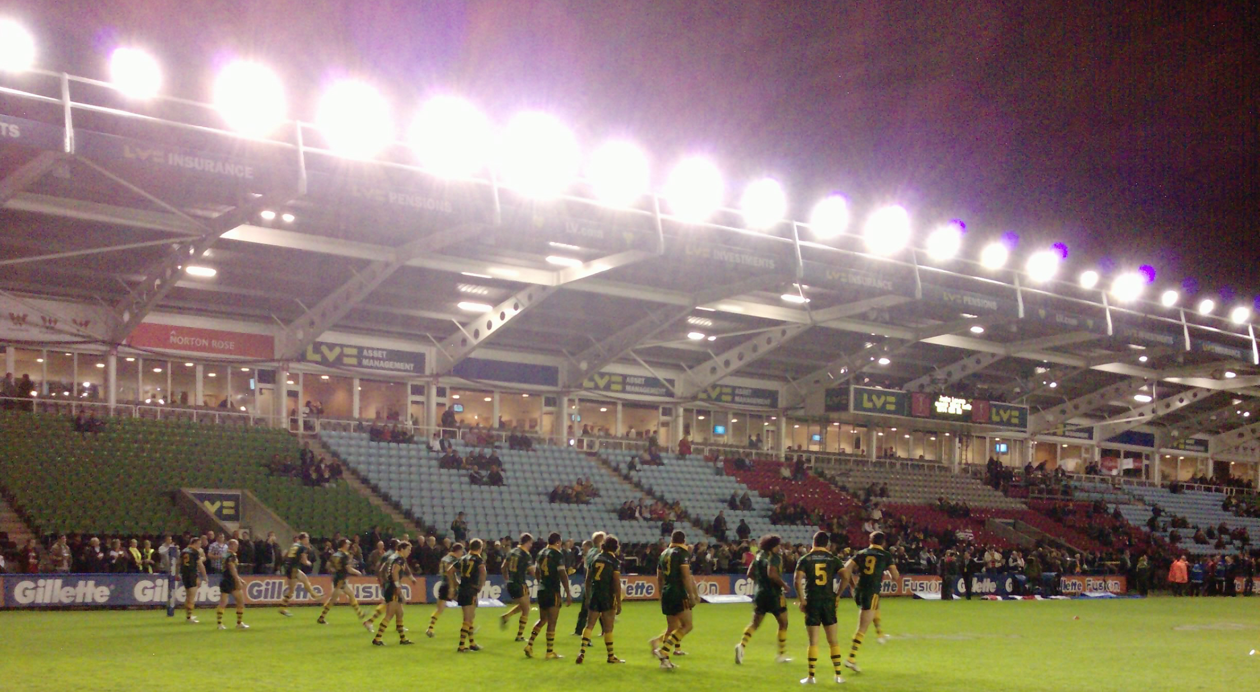 LV Stand at the Twickenham Stoop at the Australia vs New Zealand Four Nations match.